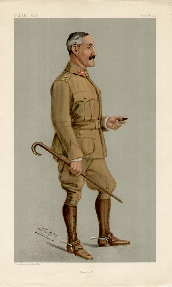 Caricature of Gen HL Smith-Dorrien DSO. Caption read "Doreen".